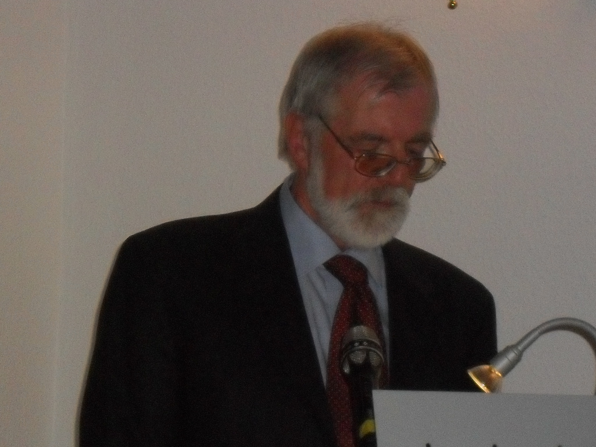 German author Ulrich Grober